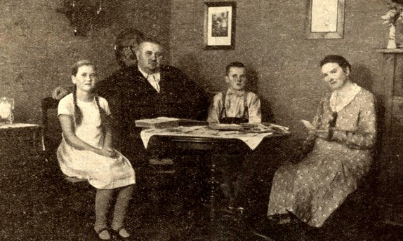 Mikas Posingis with family.